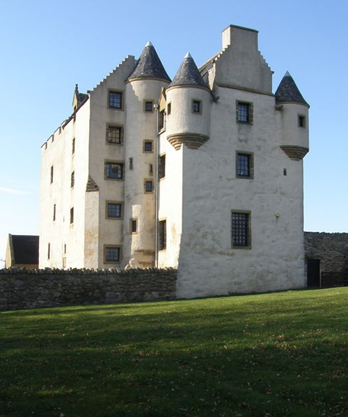 Faside Castle